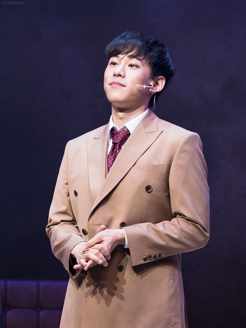 Kim Seong-cheol.